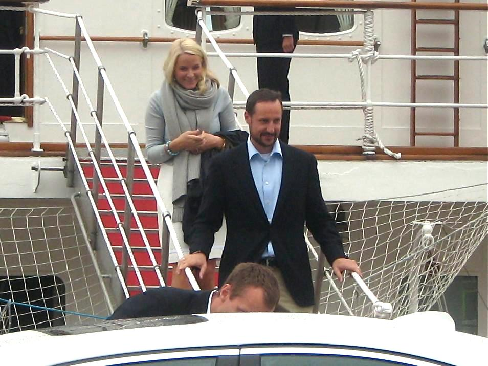 Haakon, Crown Prince of Norway, and Mette-Marit, Crown Princesse of Norway, disembarked from the R / S of Norway at Skeppsbron in Stockholm, 18 June 2010. The Norwegian royal family is in Stockholm to attend the wedding of Victoria, Crown Princess of Sweden, and Daniel Westling.